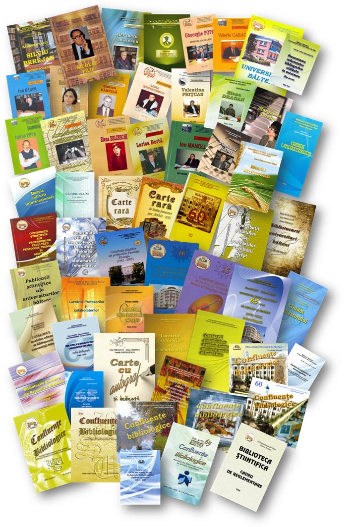 Confluente bibliologice